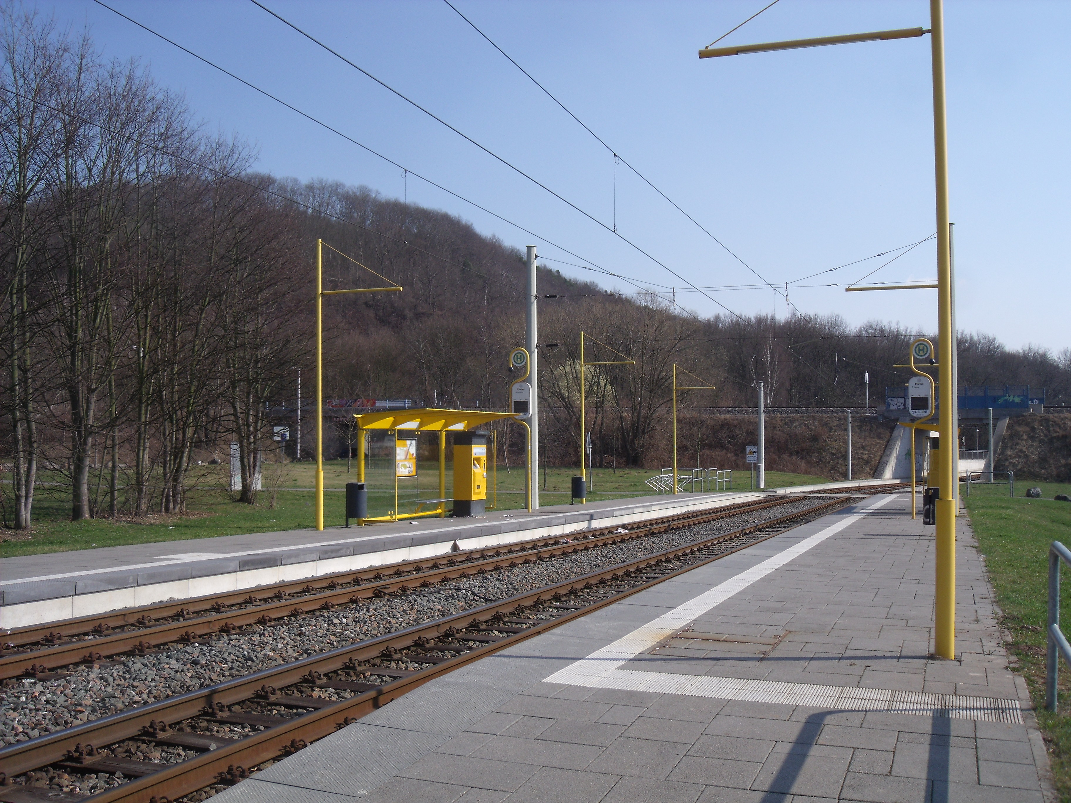 Tram stop Pforten in Gera, Germany, in March 2012